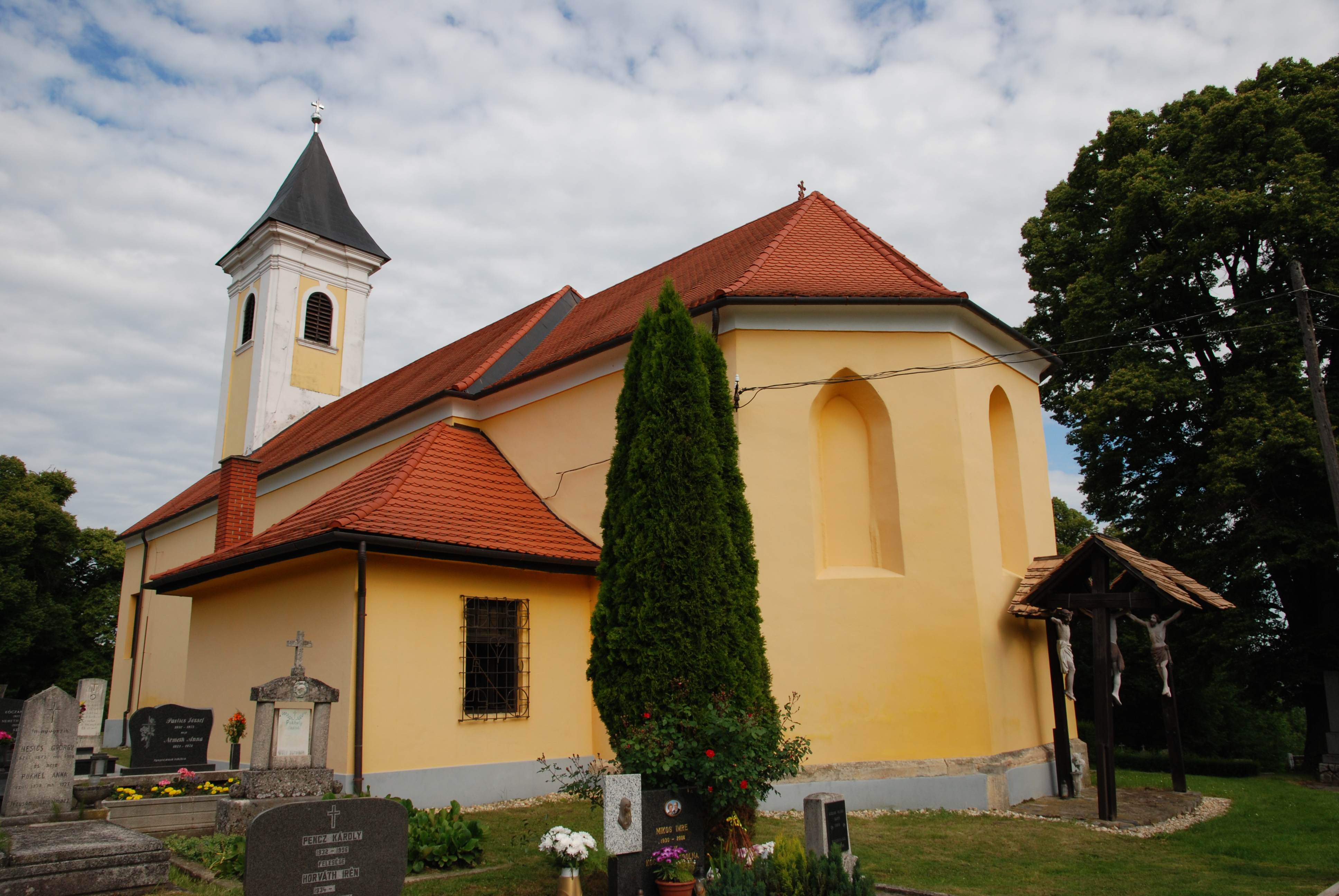 Church Rábakethely